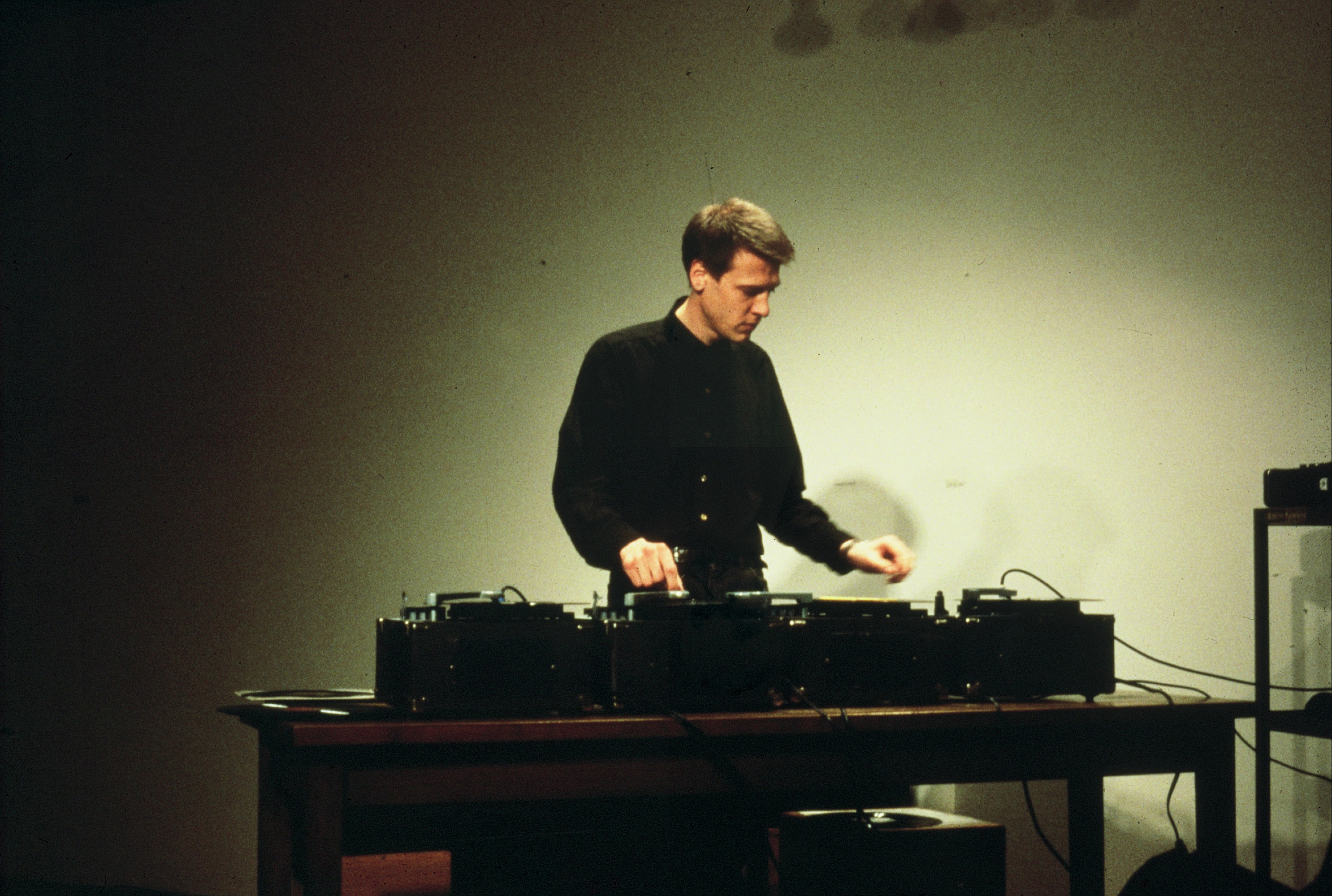 Christian Marclay at Hallwalls in Bufalo, N.Y. Nov. 16, 1985